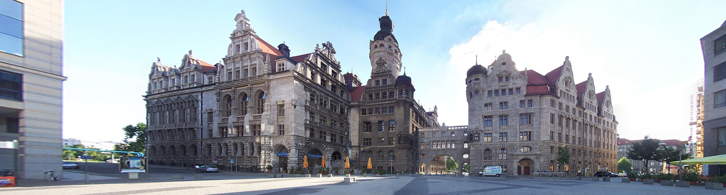 The Neues Rathaus (new town hall) in Leipzig